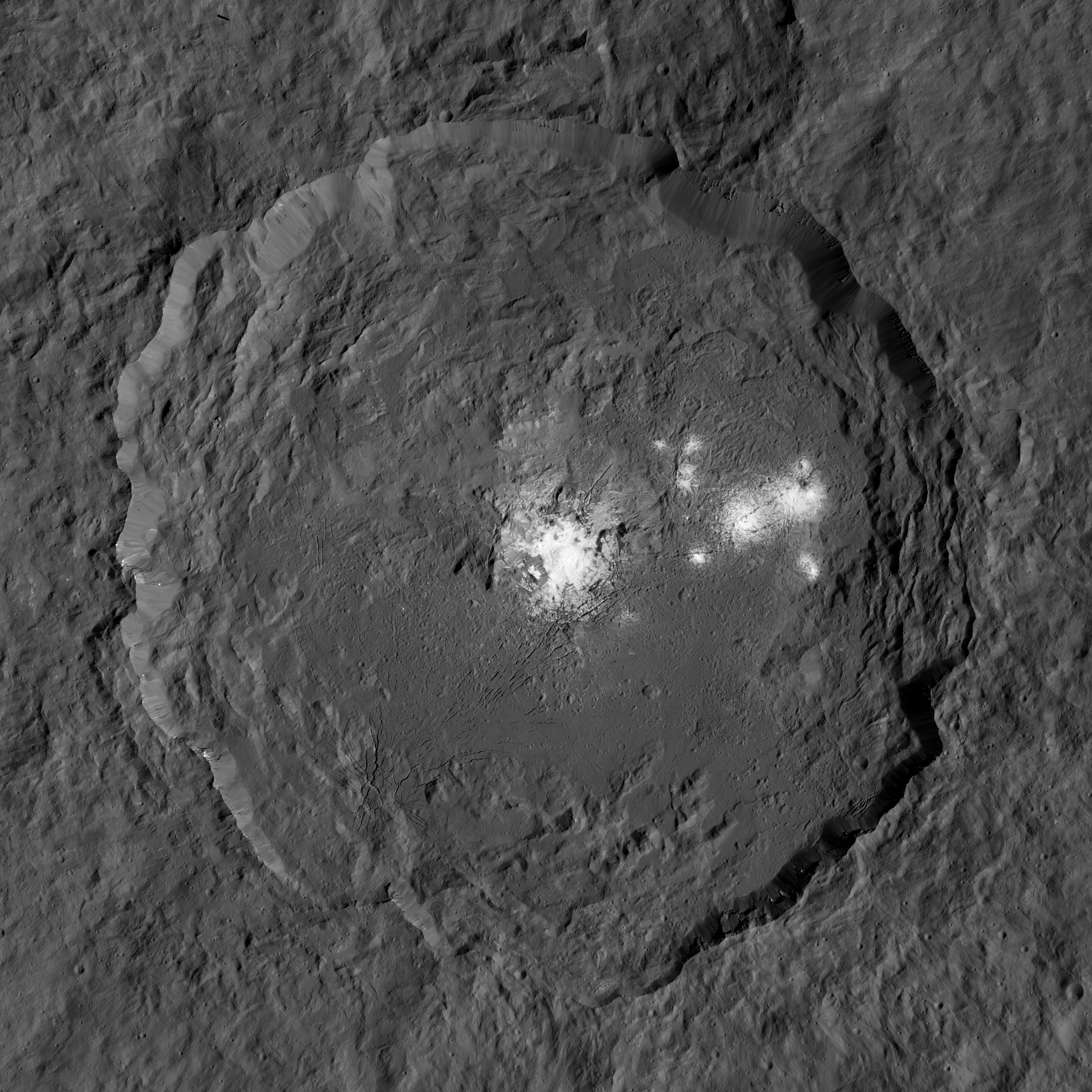 Occator crater, measuring 57 miles (92 kilometers) across and 2.5 miles (4 kilometers) deep, contains the brightest area on Ceres. This region has been the subject of intense interest since Dawn's approach to the dwarf planet in early 2015. Dawn's close-up view reveals a dome in a smooth-walled pit in the bright center of the crater. Numerous linear features and fractures crisscross the top and flanks of this dome. Prominent fractures also surround the dome and run through smaller, bright regions found within the crater. A separate figure shows the bright spots in a mosaic of two Dawn images taken using a shorter exposure time. The shorter exposure reveals details within the bright features that are overexposed, or nearly so, in the full mosaic. The images used to make these mosaics were taken from Dawn's low-altitude mapping orbit (LAMO), 240 miles (385 kilometers) above Ceres. Dawn's mission is managed by JPL for NASA's Science Mission Directorate in Washington. Dawn is a project of the directorate's Discovery Program, managed by NASA's Marshall Space Flight Center in Huntsville, Alabama. UCLA is responsible for overall Dawn mission science. Orbital ATK, Inc., in Dulles, Virginia, designed and built the spacecraft. The German Aerospace Center, the Max Planck Institute for Solar System Research, the Italian Space Agency and the Italian National Astrophysical Institute are international partners on the mission team. For a complete list of acknowledgments, For more information about the Dawn mission, visit The original NASA image has been cropped and converted from TIFF to JPEG format by the uploader.